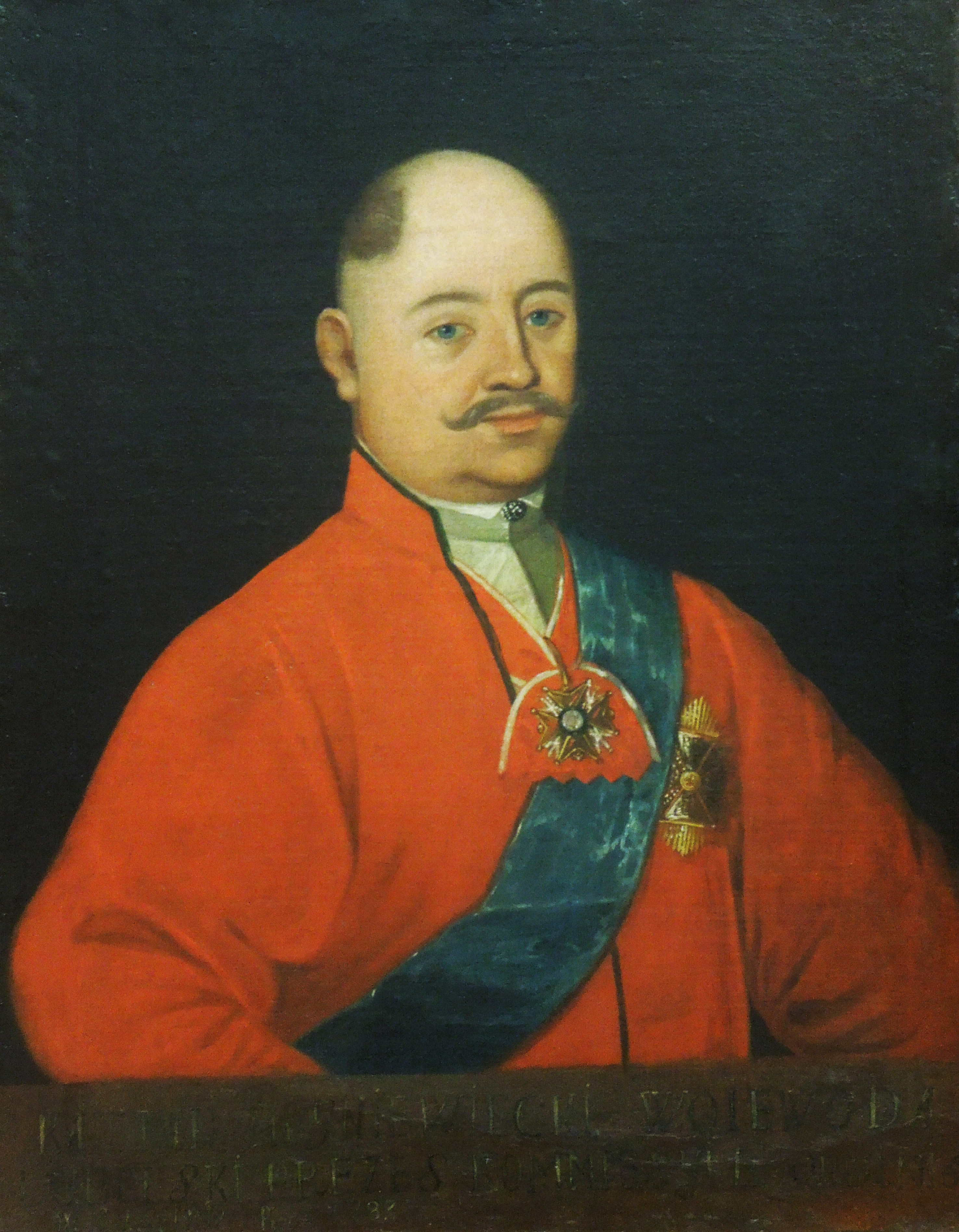 Unknown Artist - Kajetan Hryniewiecki